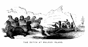 Barents' coming upon walruses